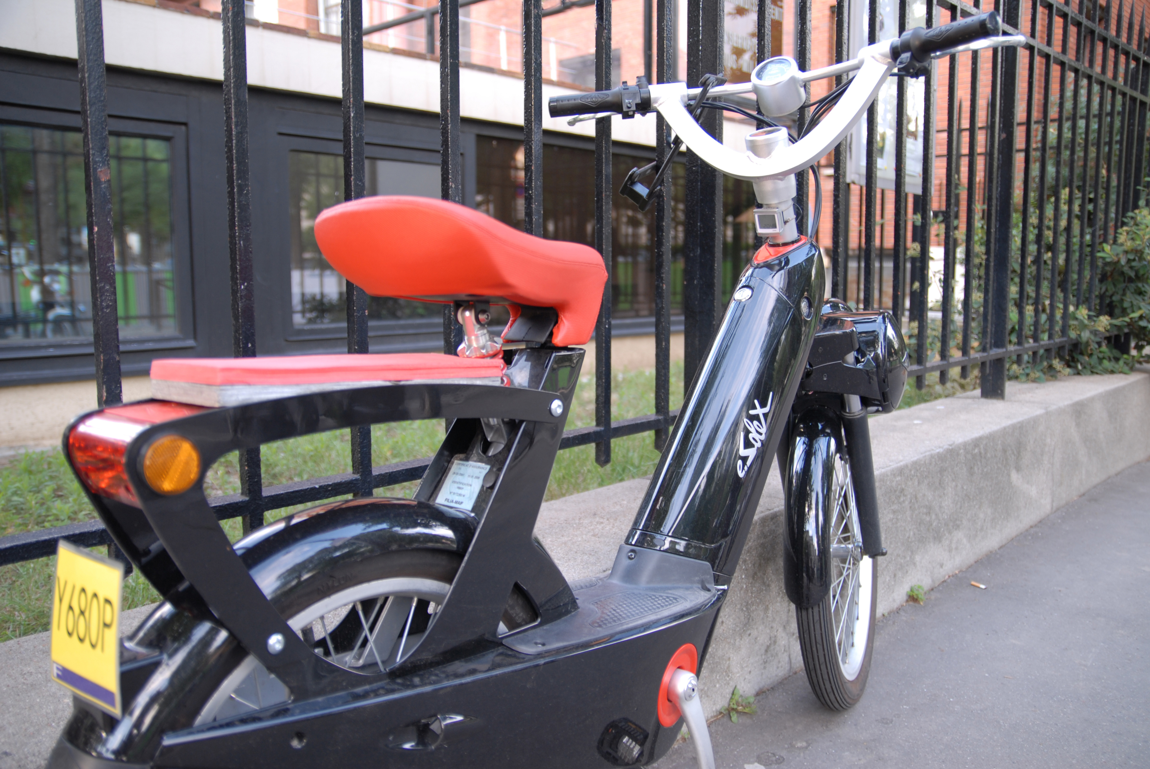 e-Solex in Paris